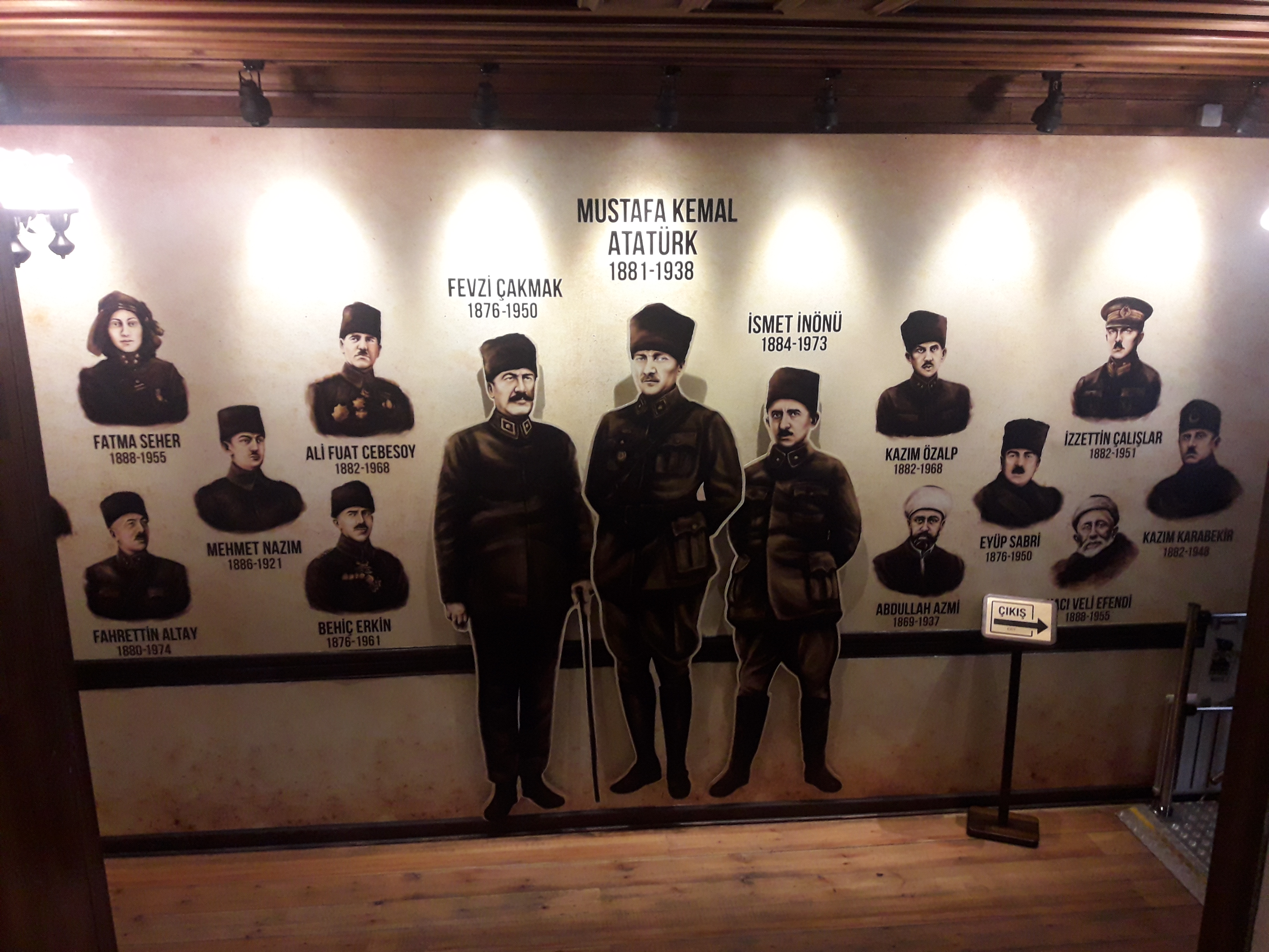 Eskişehir Museum of Independence sculptures of the main heros